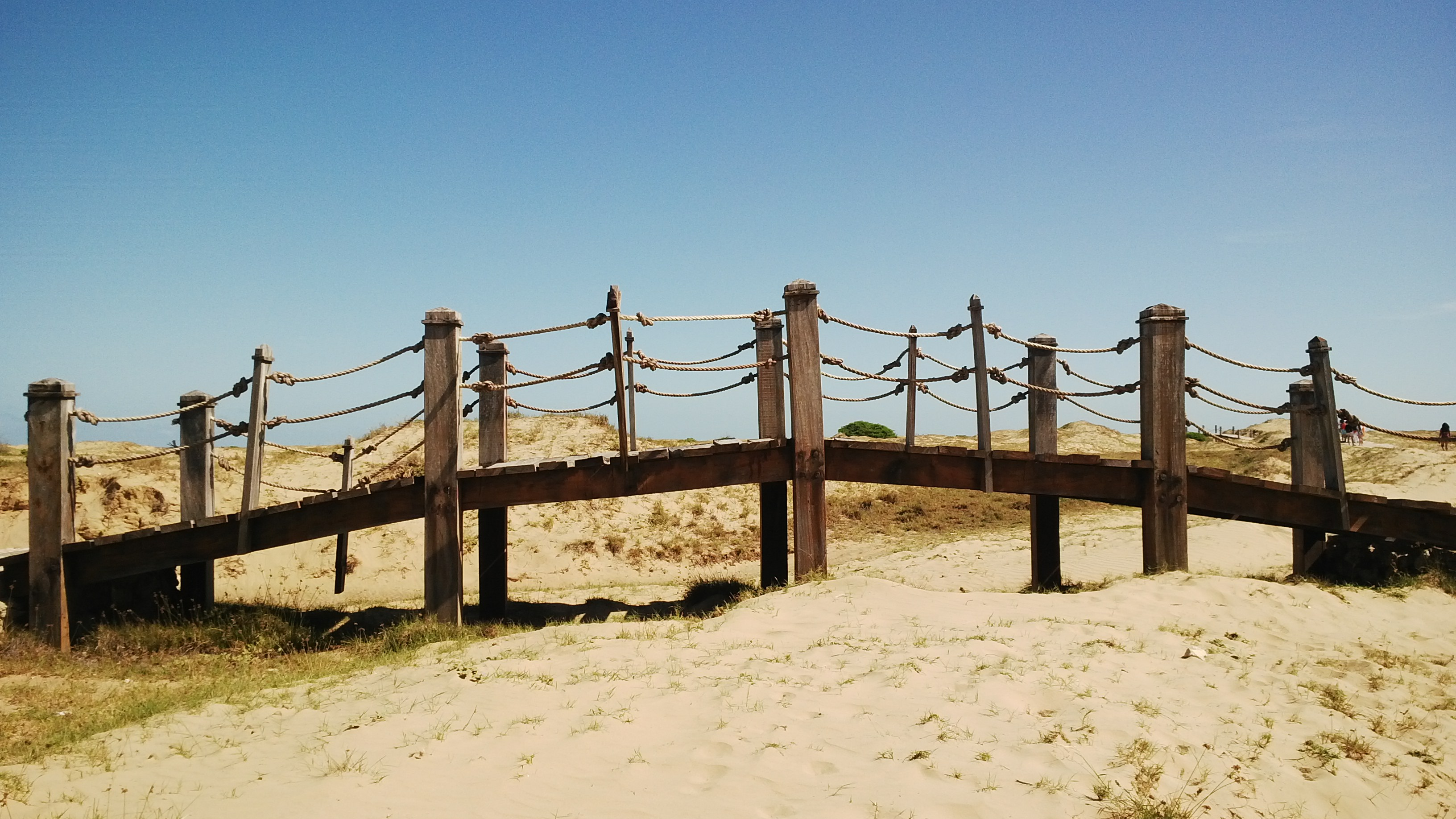 Stone road, located on the island of Zapara (Venezuela).